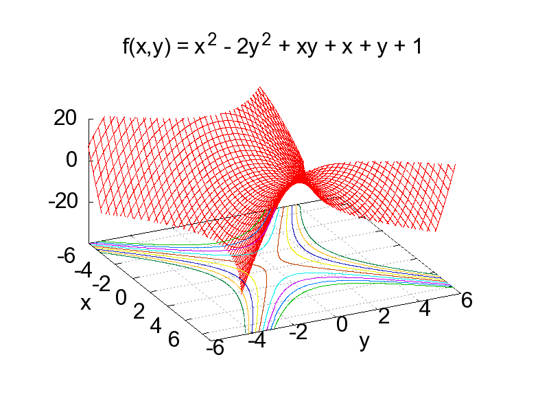 quadratic function in two variables